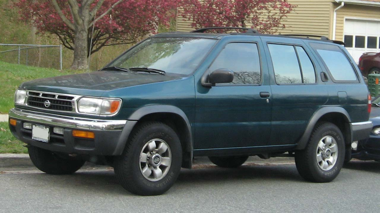 1996-1999 Nissan Pathfinder photographed in USA.